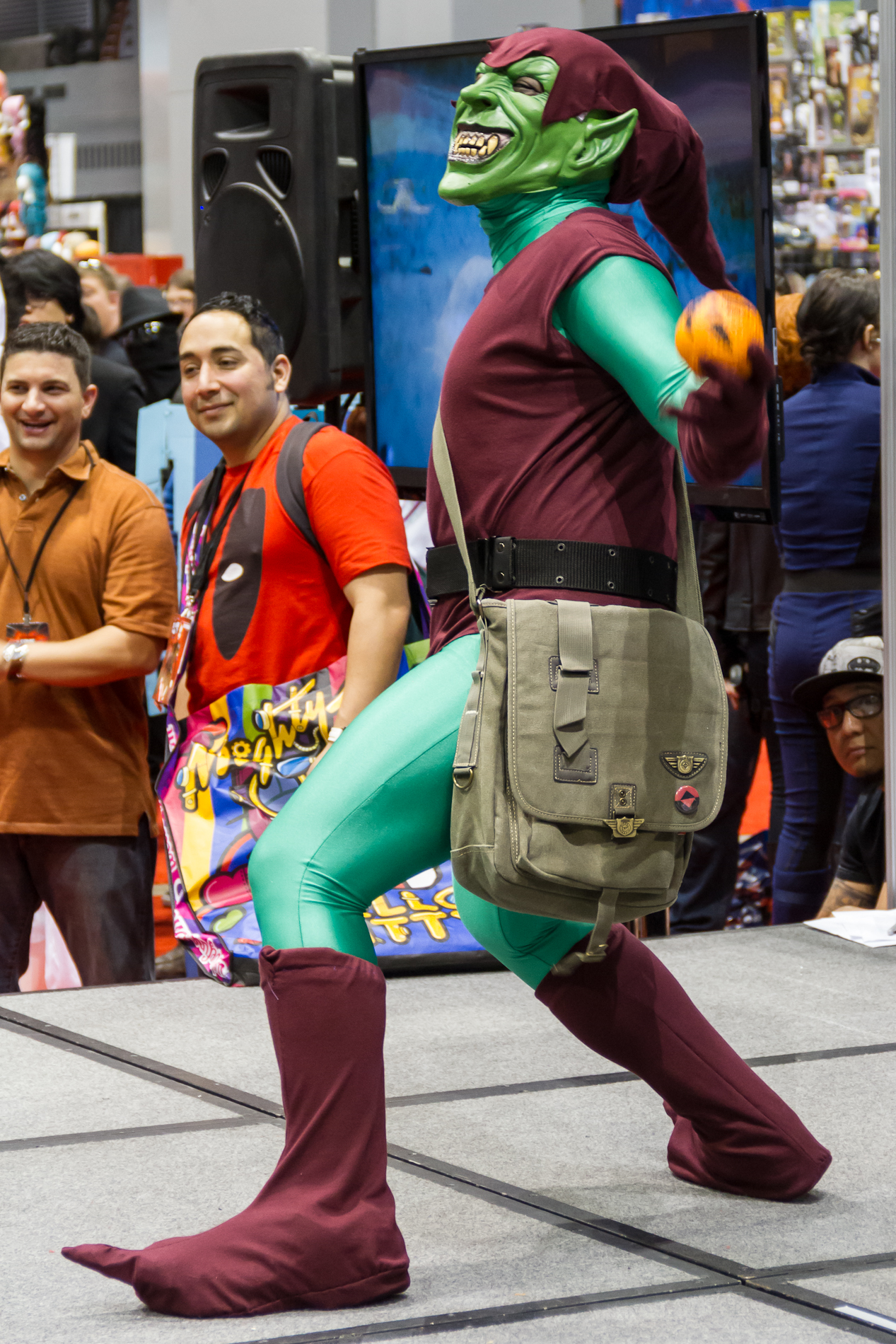 Costume of the fictional character Green Goblin. cosplay